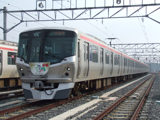 Tsukuba Express TX-1000 series EMU set 01 at Moriya depot